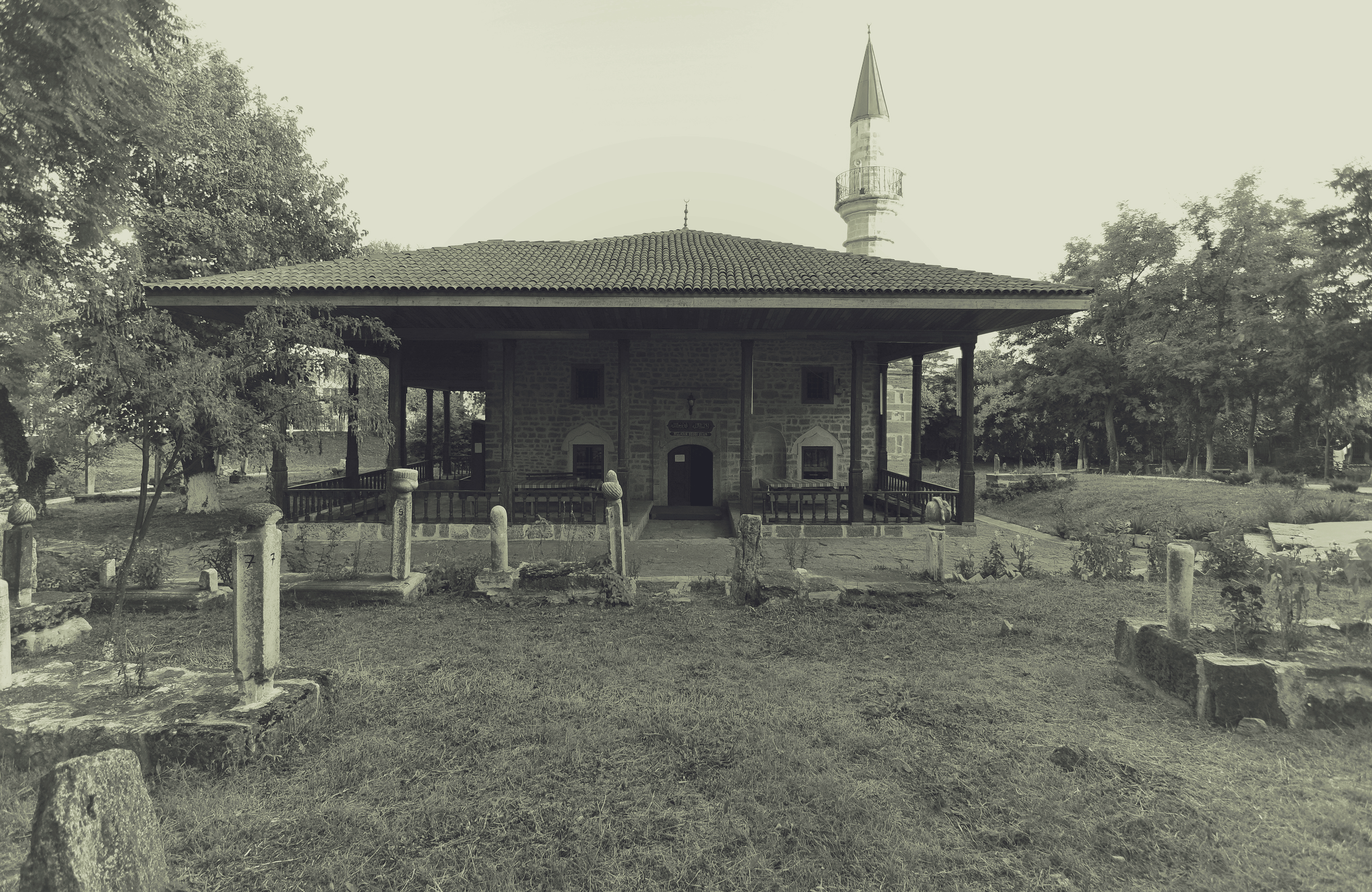 Esmahan Sultan Mosque in Mangalia Built in 1575 by Esmahan, the daughter of Ottoman sultan Selim II it is the oldest Muslim place of worship in Dobruja and Romania. Located in Mangalia, Constanţa County, it serves a community of 800 Muslim families, most of them of Turkish and Tatar ethnicity. It was renovated in the 1990s and includes a graveyard with 300-year old tombstones.